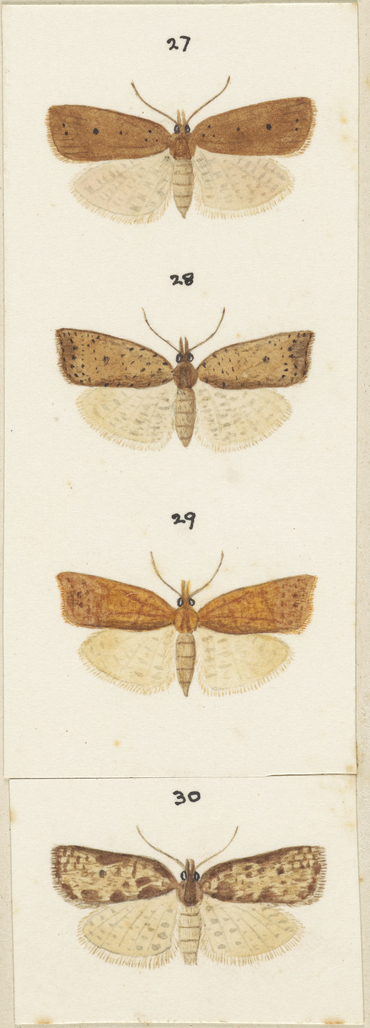 Watercolour by George Hudson. Plate XXIV. The butterflies and moths of New Zealand. Fig 27. Tortrix excessana (now known as Planotortrix excessana) Fig 28. Tortrix excessana (now known as Planotortrix excessana) Fig 29. Tortrix excessana (now known as Planotortrix excessana) Fig 30.Tortrix excessana (now known as Planotortrix excessana)